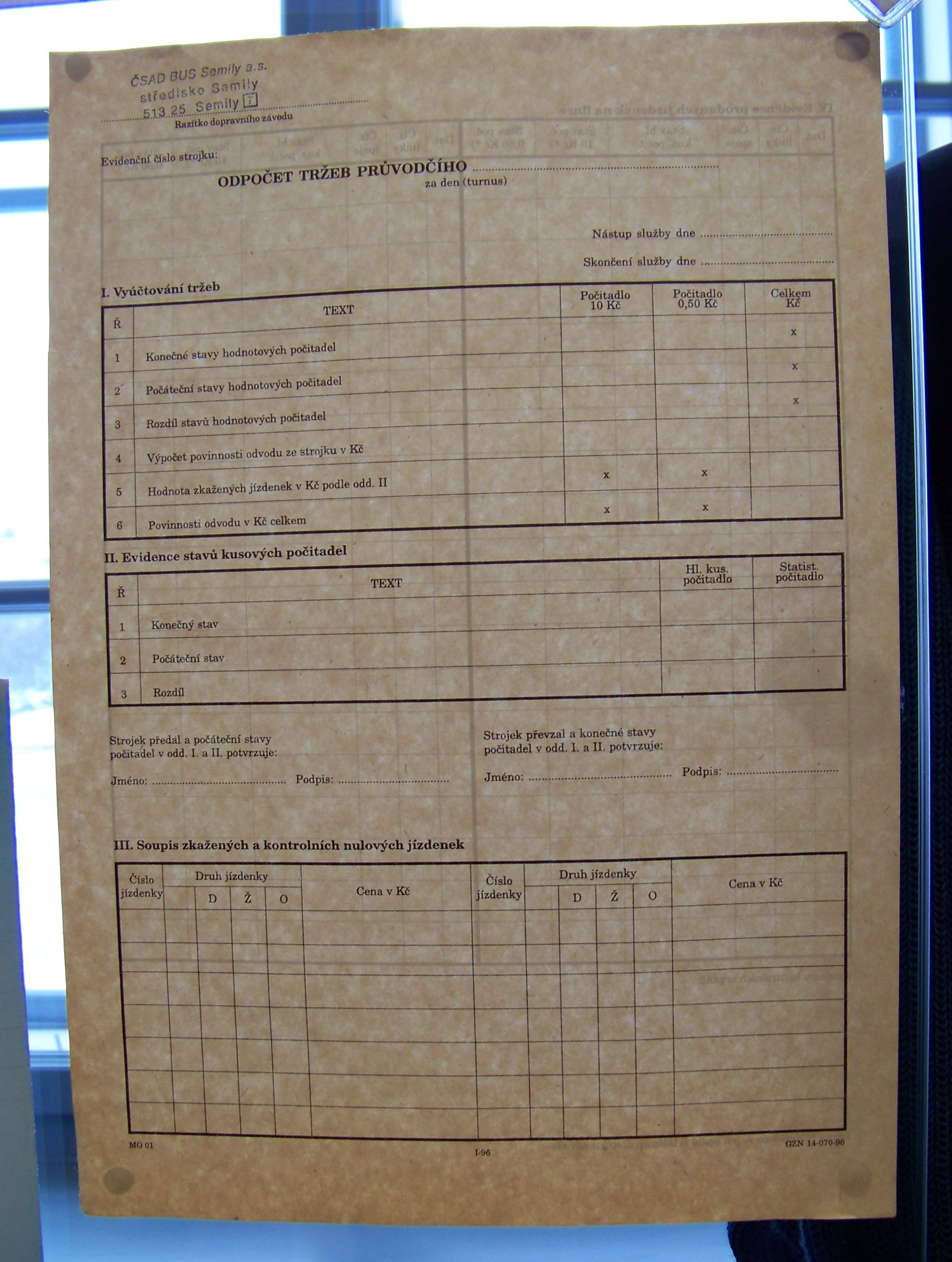 Lomnice nad Popelkou, Semily District, Liberec Region, Czech Republic. Exhibiton "History of the Transport Facility ČSAD Semily" by Lubomír Fejfar at Lomnice nad Popelkou castle. Takings report about sold bus tickets from Setright ticket machine.